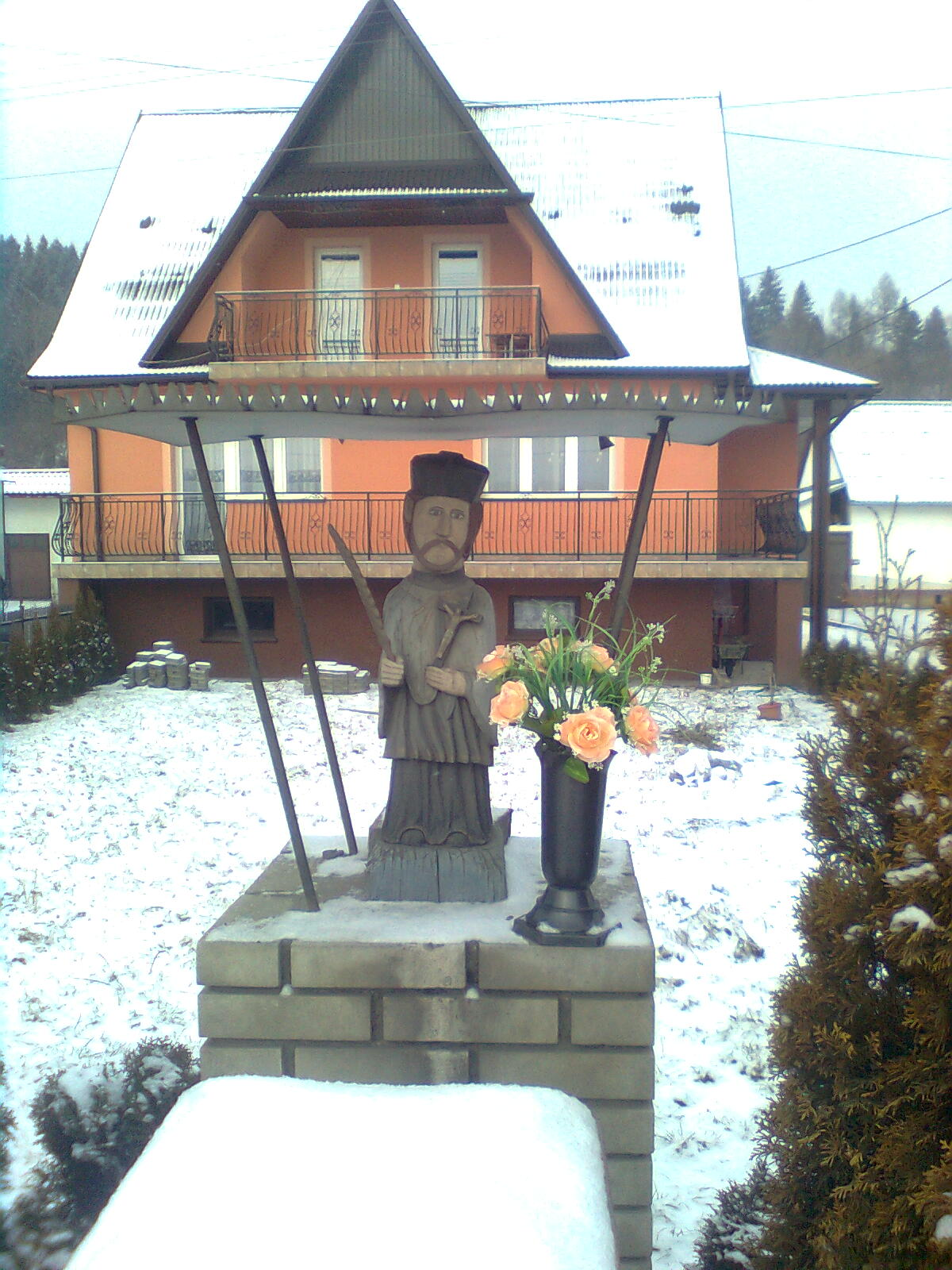 Wayside shrine of Saint John of Nepomuk in Podegrodzie (Lesser Poland Voivodeship)